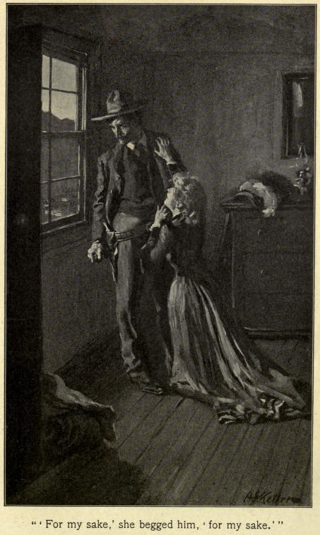 An illustration to the novel The Virginian by Owen Wister (1902).